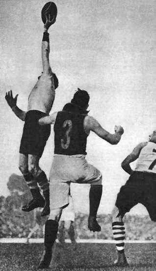 Australian rules footballer Roy Cazaly (1893-1963).